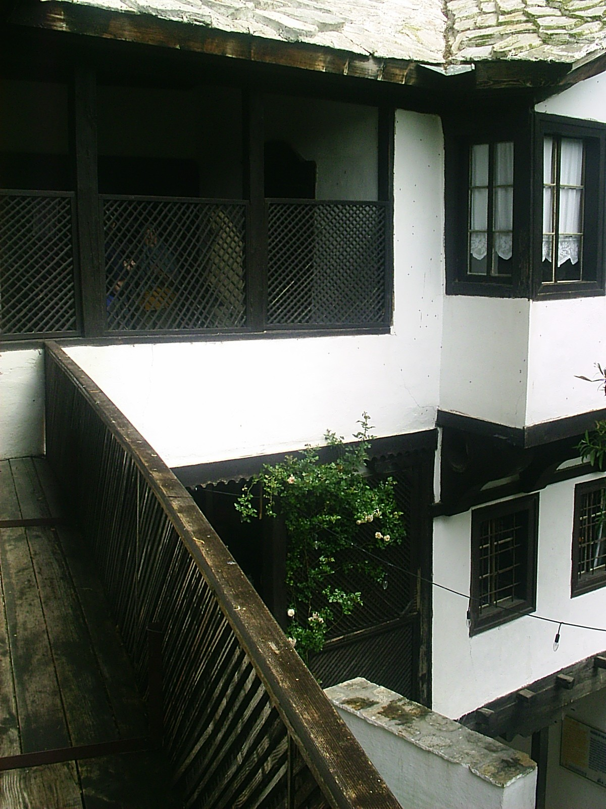 A Tekija building near Blagaj in rocky part of Bosnia and Herzegovina